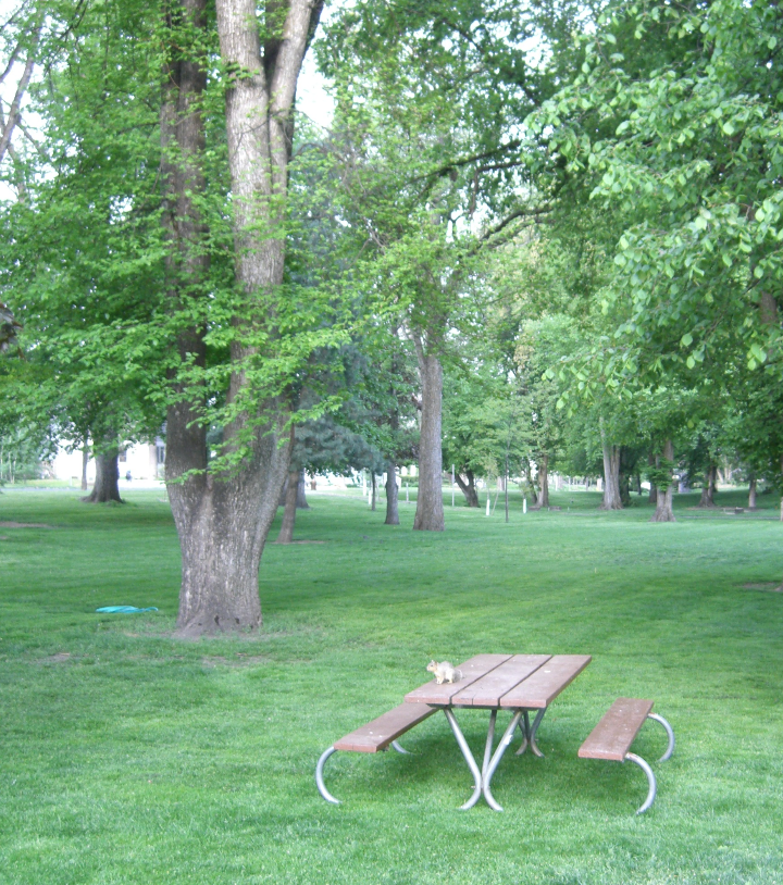 East City Park complete with a squirrel Moscow, Idaho User:Robbiegiles © 2007